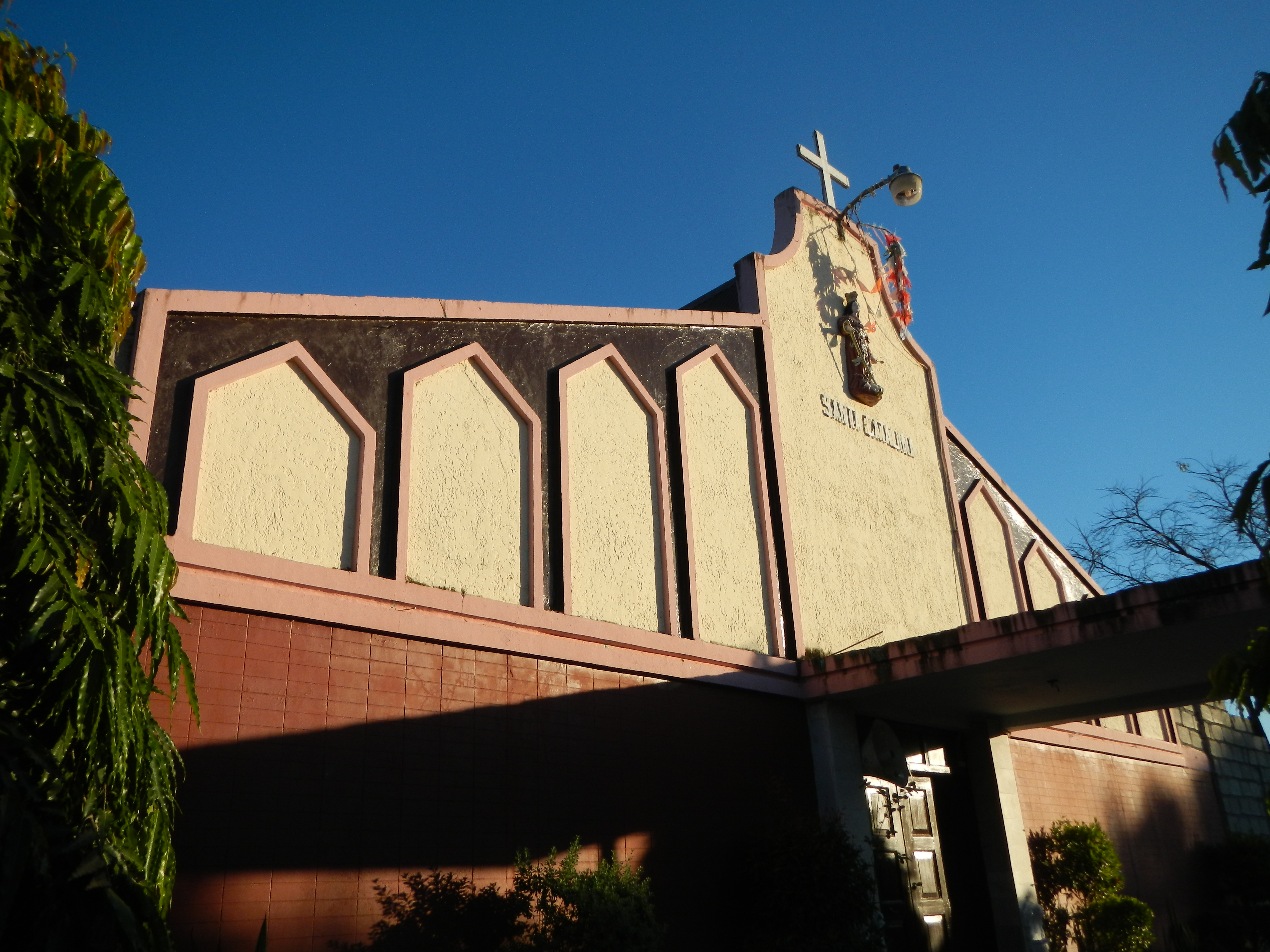 [1]Bongabon, Nueva Ecija is a second class municipality in the province of Nueva E cija, Philippines. According to the 2010 census, it had a population of 59.343 people. It has an area of 28,352.90 hectares (70,061.5 acres), and is the leading producer of onion ("Onion Capital of the Philippines") in the Philippines and in Southeast Asia.[2]Hon. Amelia A. Gamilla Municipal MayorHon. Edmond E. Arive - Municipal Vice Mayor[3]Santol (present day Santor) was established in 1659, Santa Catalina Chapel [4]Bongabon, Nueva Ecija